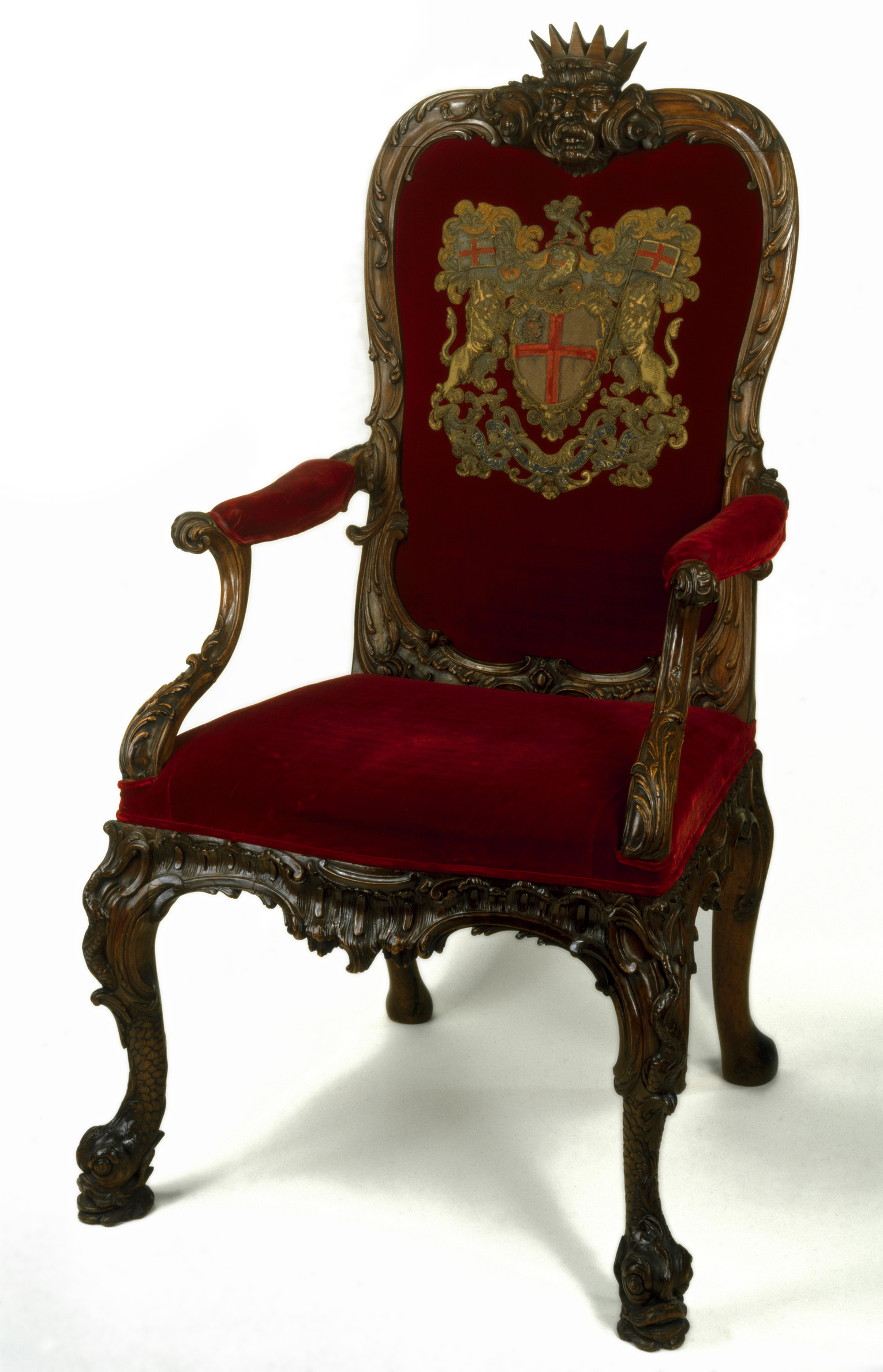 The seat of the chairman of the court of directors of the East India Company, subsequently that of the Secretary of State for India. Large ornately carved armchair with a high back surmounted by the crowned head of Neptune and dolphins forming the cabriole front legs and feet. Embroidered panel depicting the arms of the East India Company on the centre back. Walnut with crimson velvet upholstery.